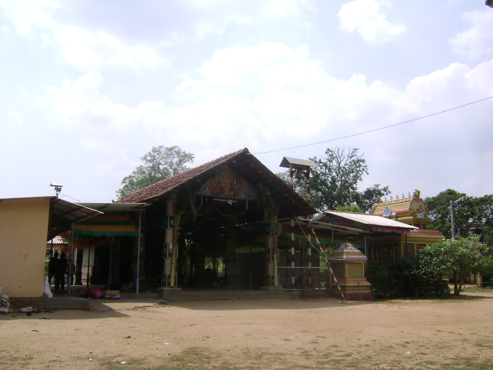 This is a photo taken in front of the Thandikulam Murugan Kovil